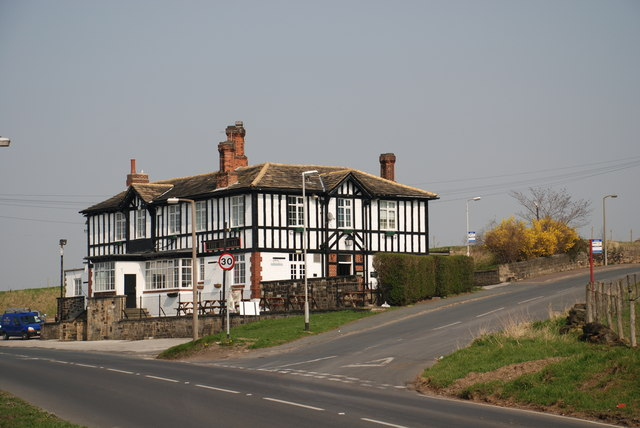 The Beulah Hotel, Tong Rd, Farnley Has its own website